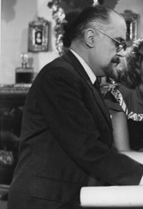 Carlos Alajarin- actor